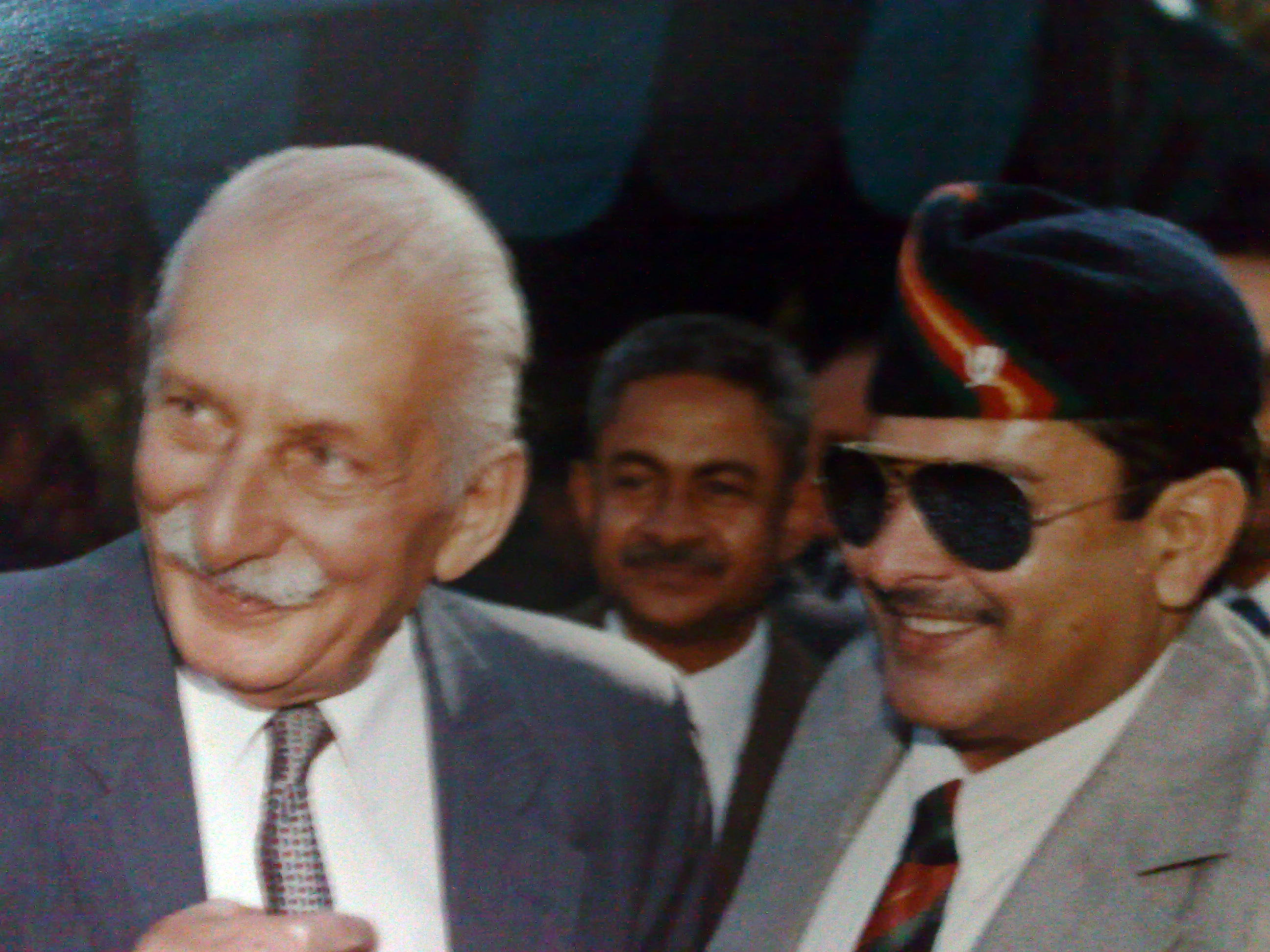 Col. Kaul with Field Marshall Sam Manekshaw